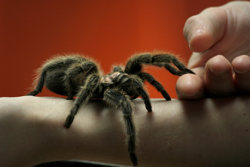 cool spider